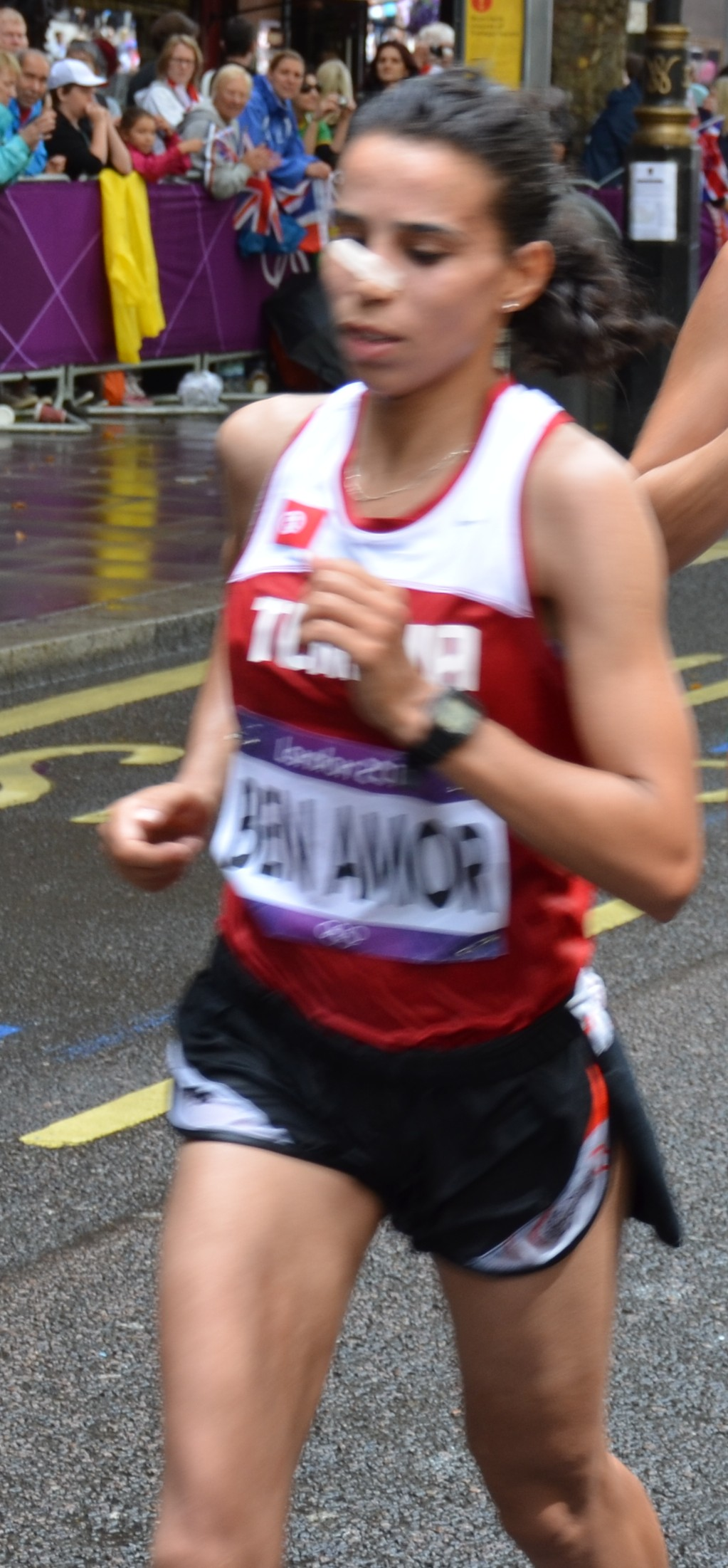 Amira Ben Amor (Tunesia) in the marathon (w) at the Olympic Games 2012